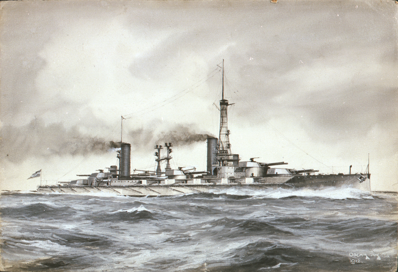 Argentine battleship Moreno Grisaille.; Medium includes graphite.; Signed by artist and dated.